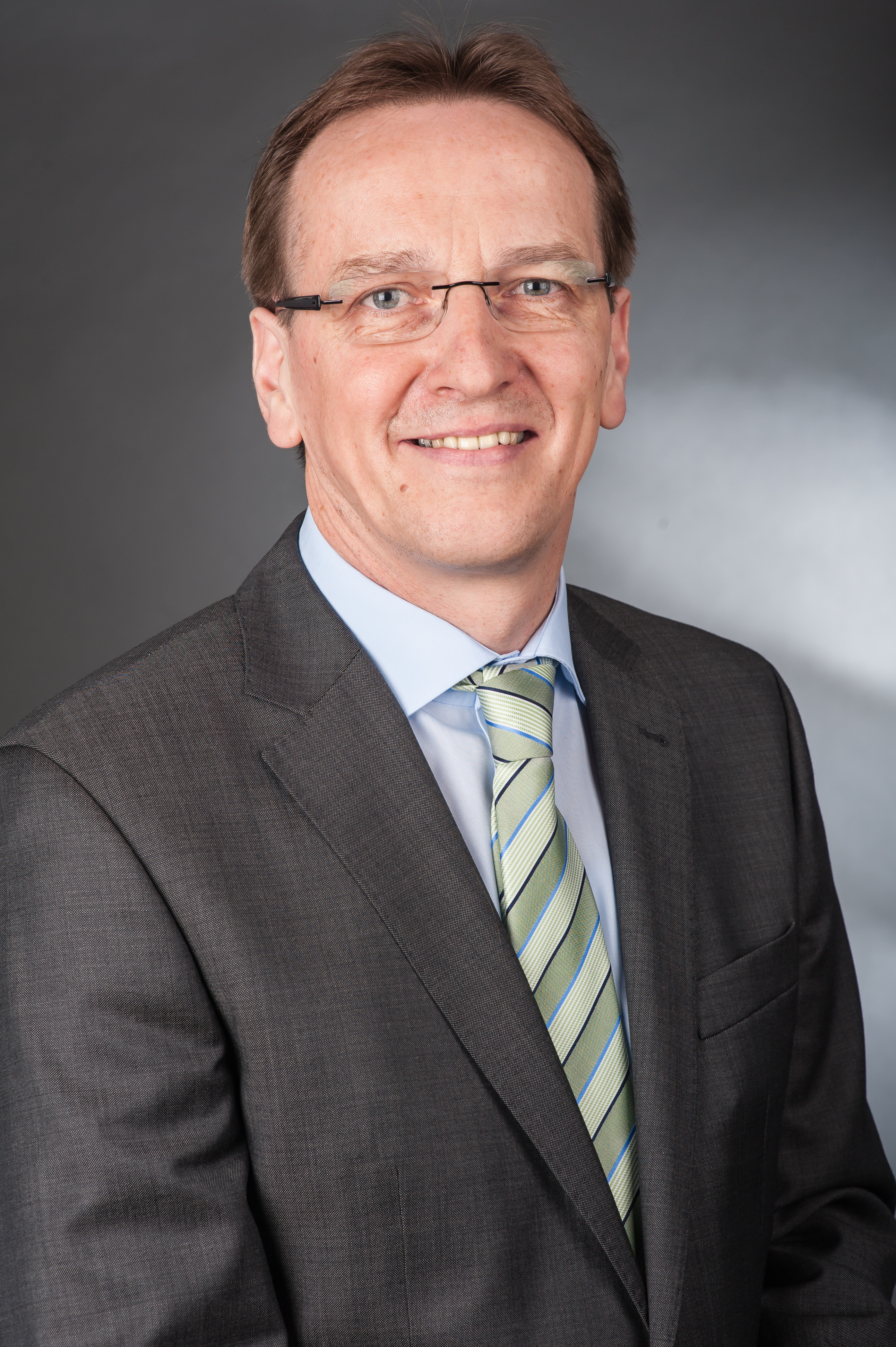 Wikipedia im Landtag – Niedersachsen 17. bis 18. April 2013 in Hannover Personality rights warningAlthough this work is freely licensed or in the public domain, the person(s) shown may have rights that legally restrict certain re-uses unless those depicted consent to such uses. In these cases, a model release or other evidence of consent could protect you from infringement claims.